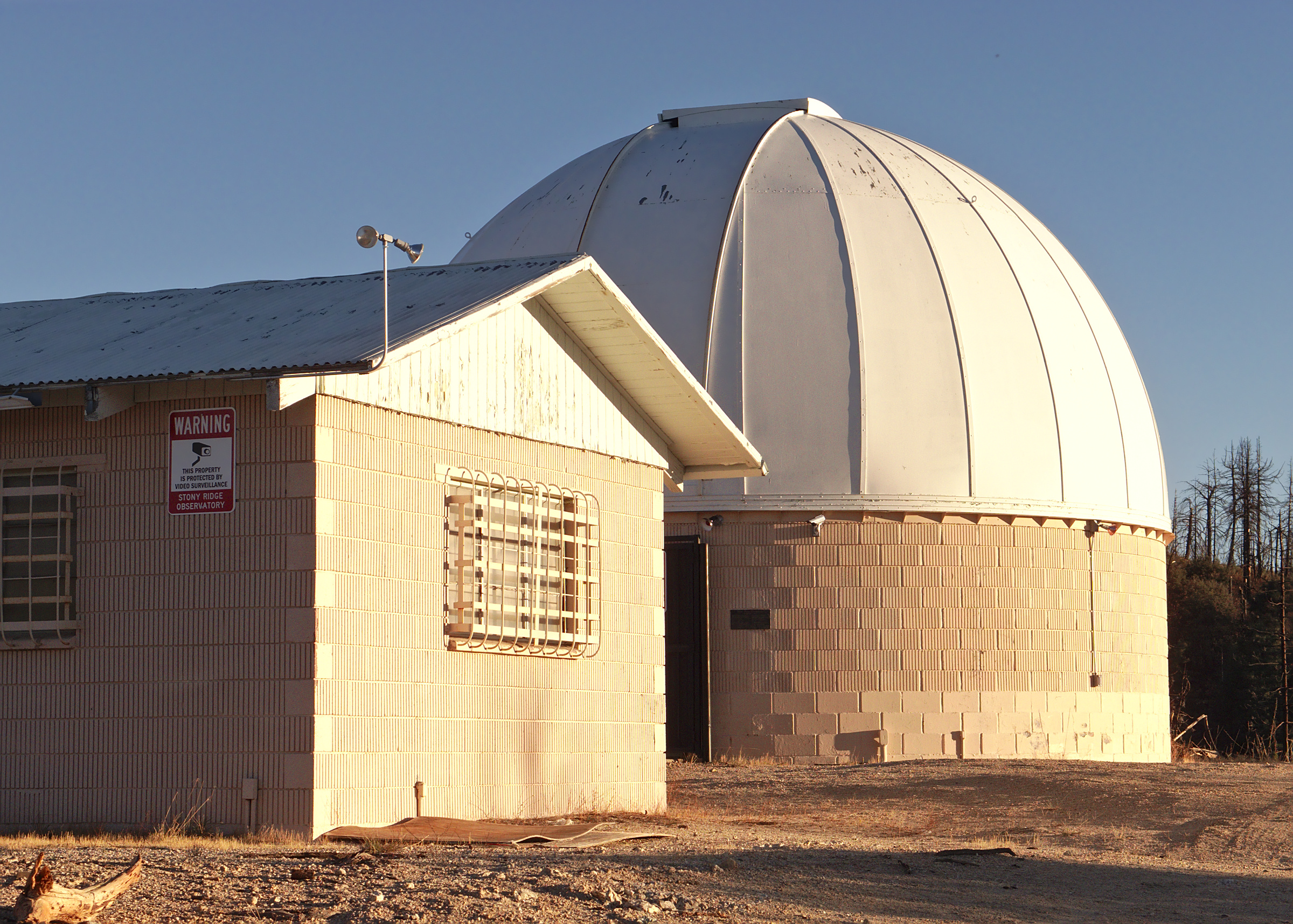 Buildings of the Stony Ridge Observatory in the Angeles National Forest just before sunset.